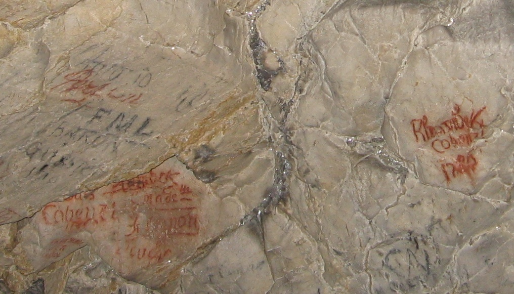 Predjama, Slovenia- cave under Predjama Castle; graffiti of 18th century (right, red: "Cobenzi 1785")